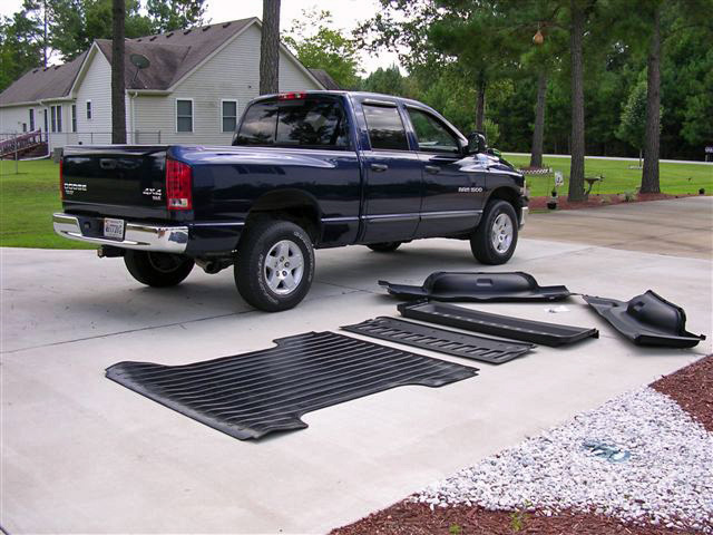 This is an example of a Hybrid Bed Liner manufactured by DualLiner